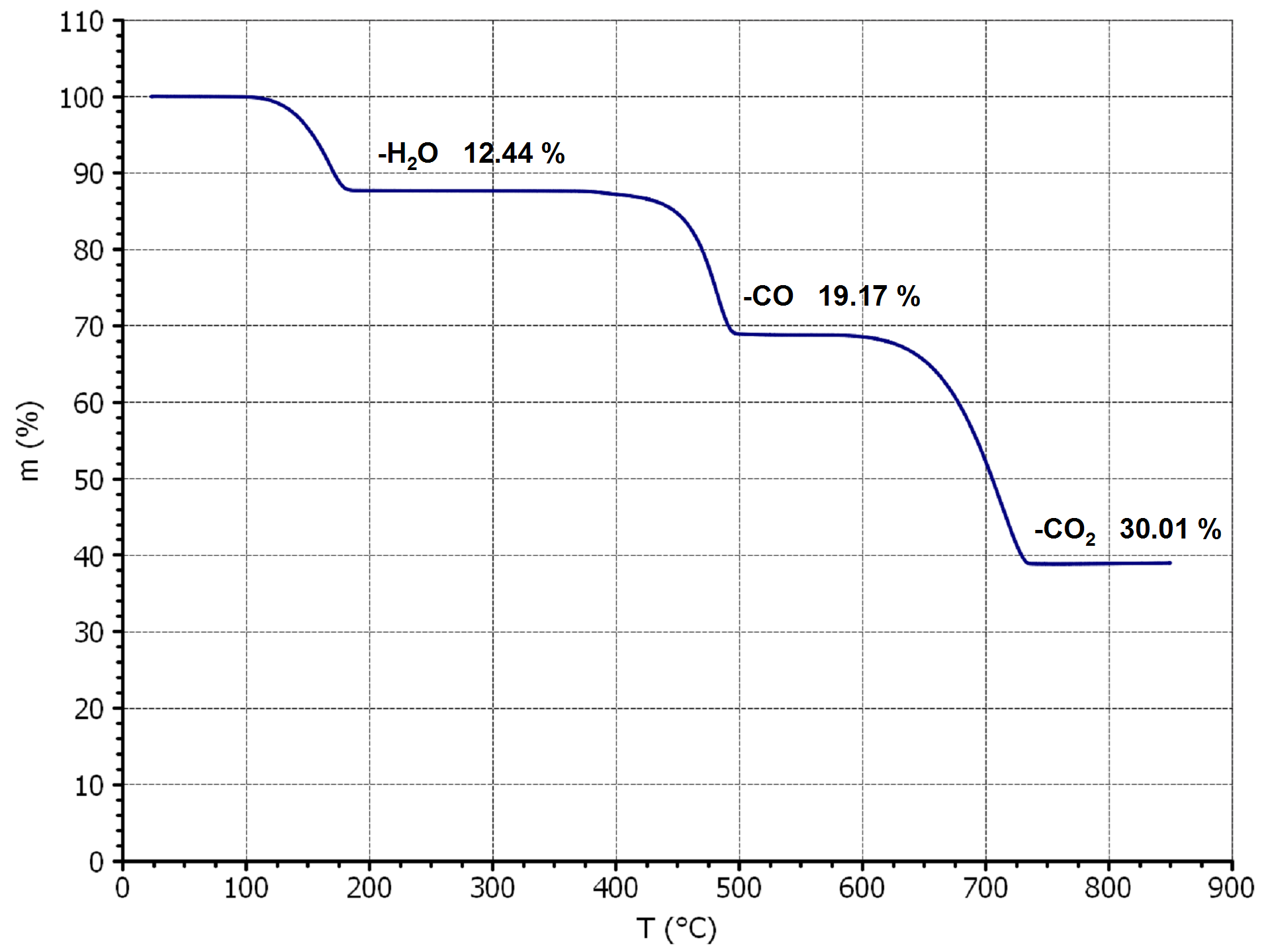 Decomposition of calcium oxalate monohydrate - thermogravimetric measurement (TGA)